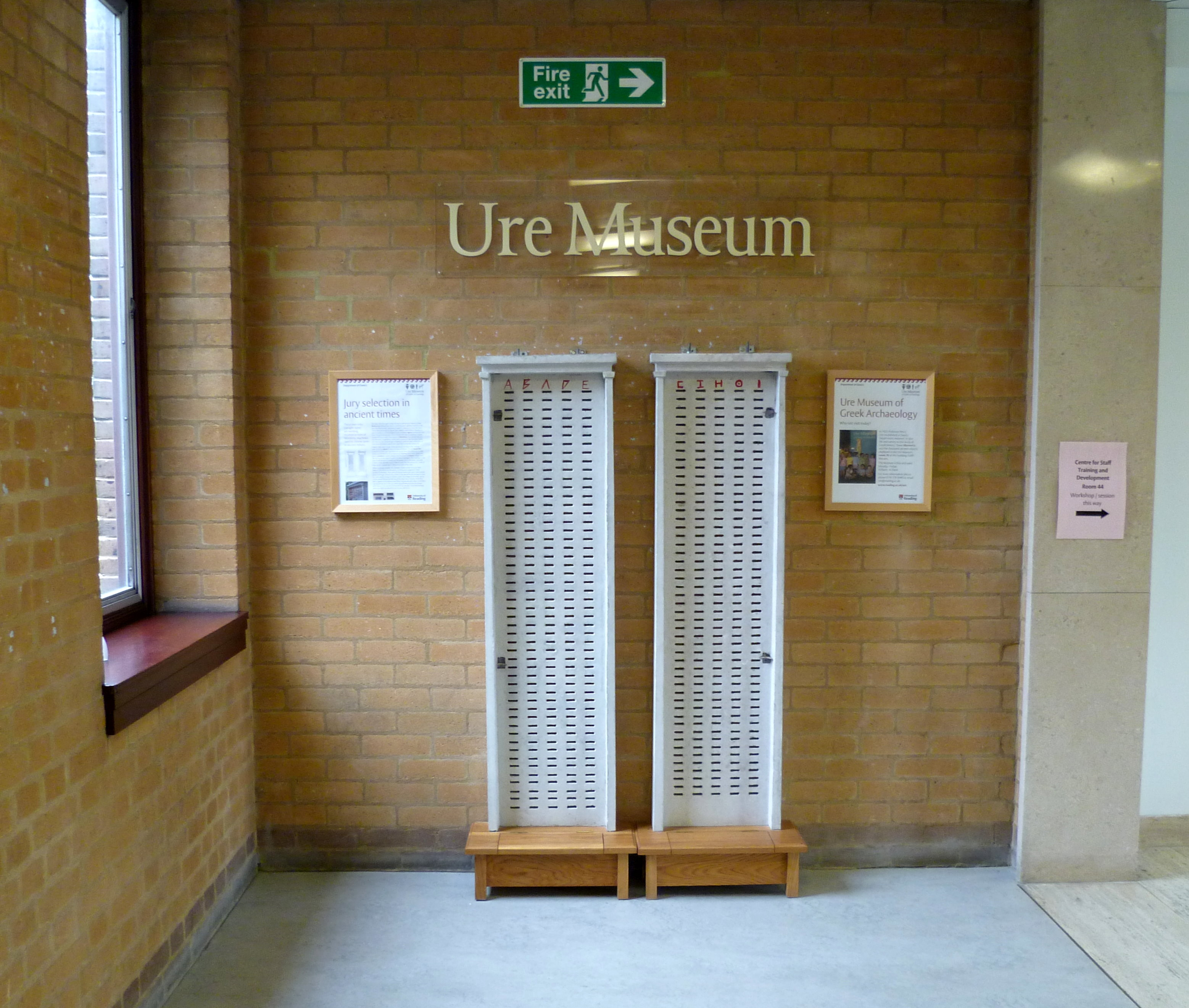 Entrance to the Ure Museum of Greek Archaeology at Reading University showing two reconstructed Kleroterions.